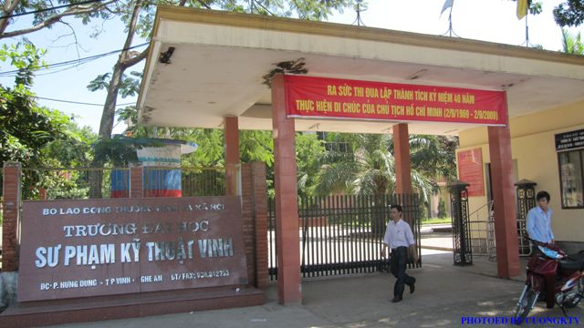 The Main gate of Vinh University of Technical Edudation